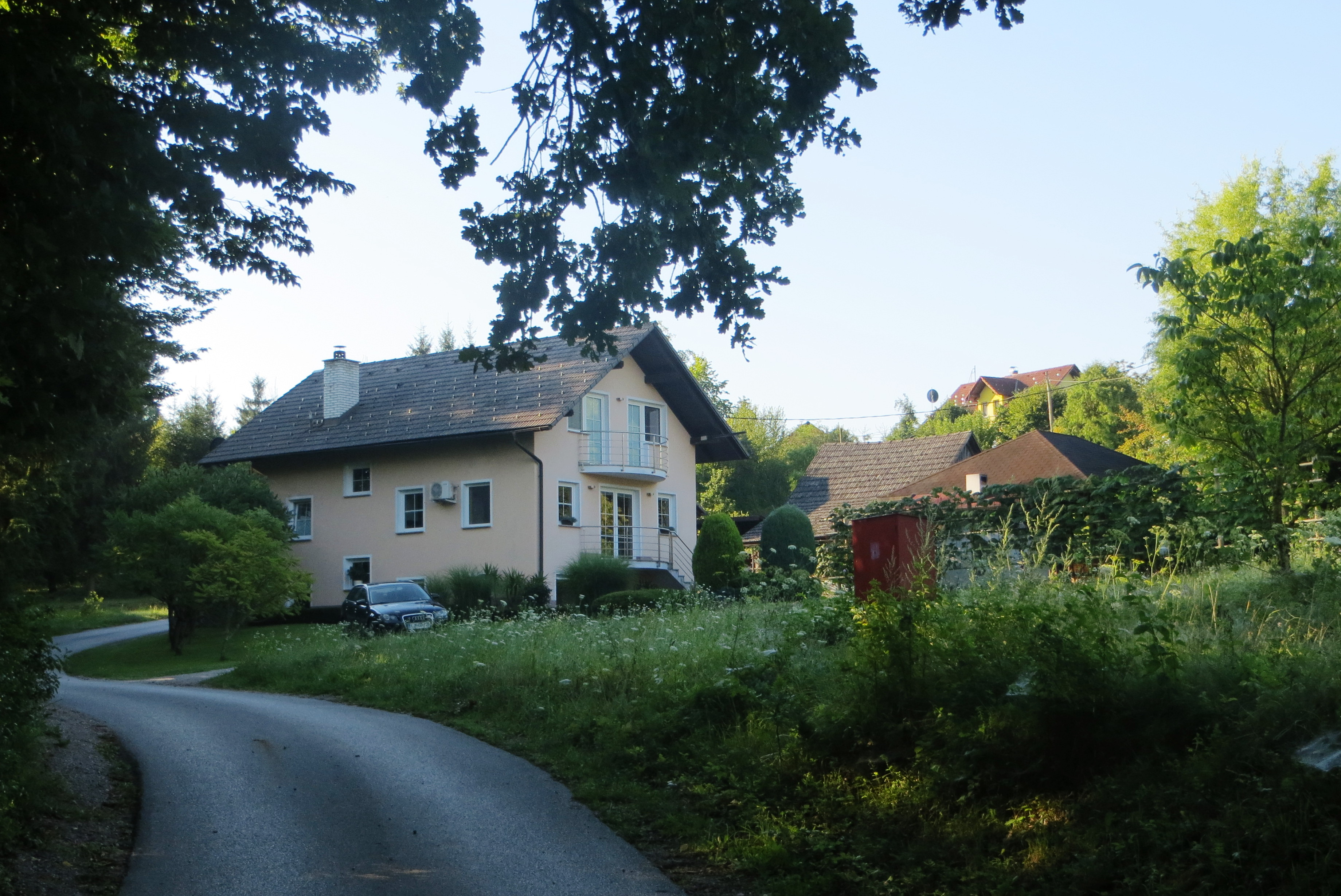 Veliko Globoko, Municipality of Ivančna Gorica, Slovenia